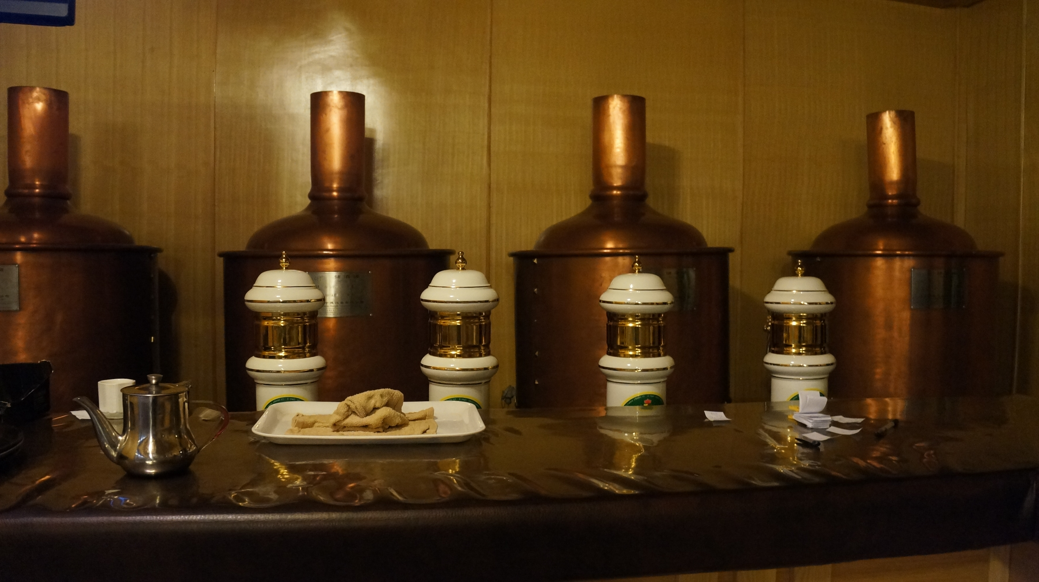 A new microbrewing culture has taken Pyongyang on by storm. Find out more on how to taste North Korean beer on our DPRK Beer Tour